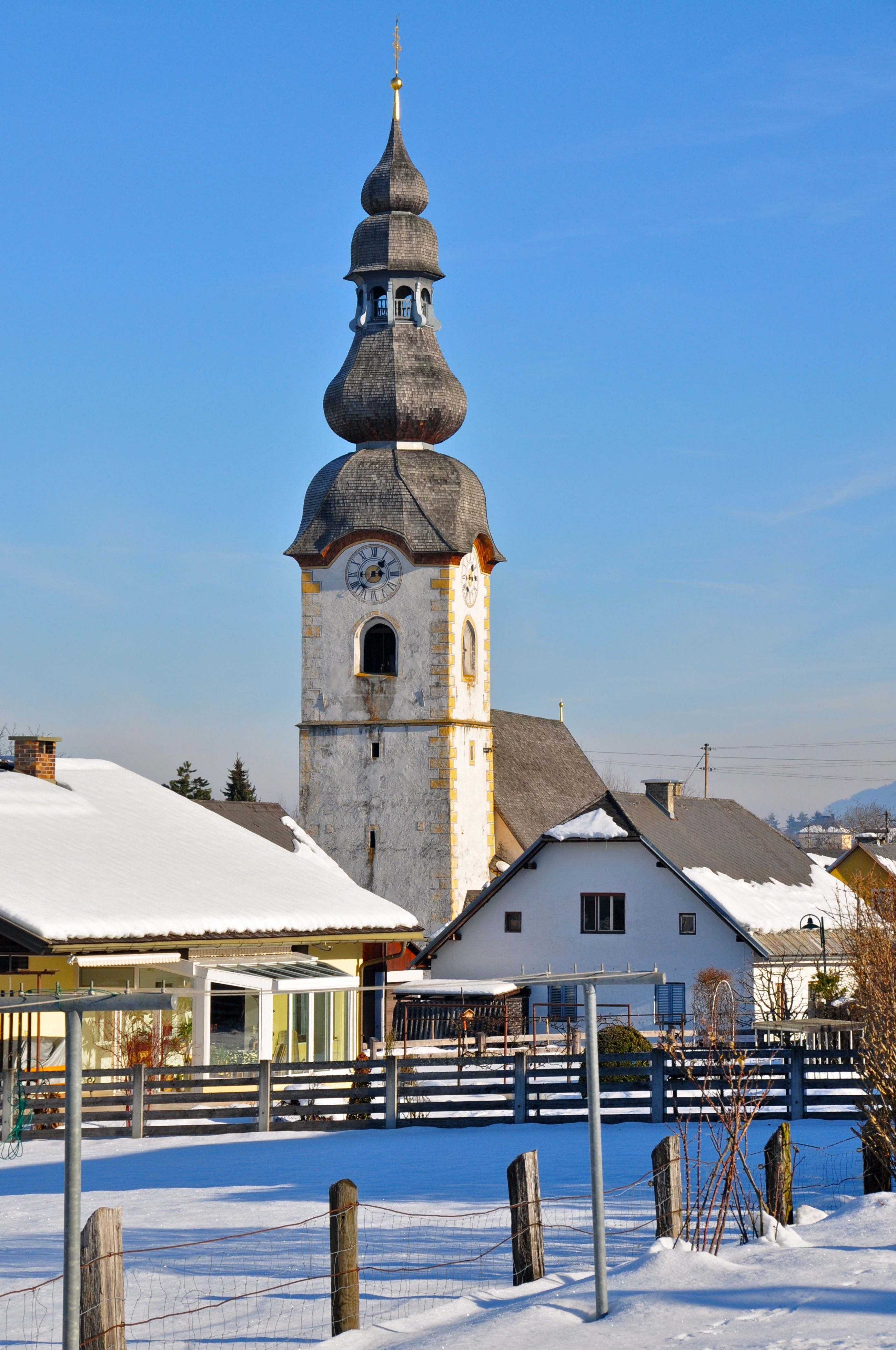 Parish church Holy Lambertus at Suetschach, market town Feistritz im Rosental, district Klagenfurt Land, Carinthia / Austria / EU